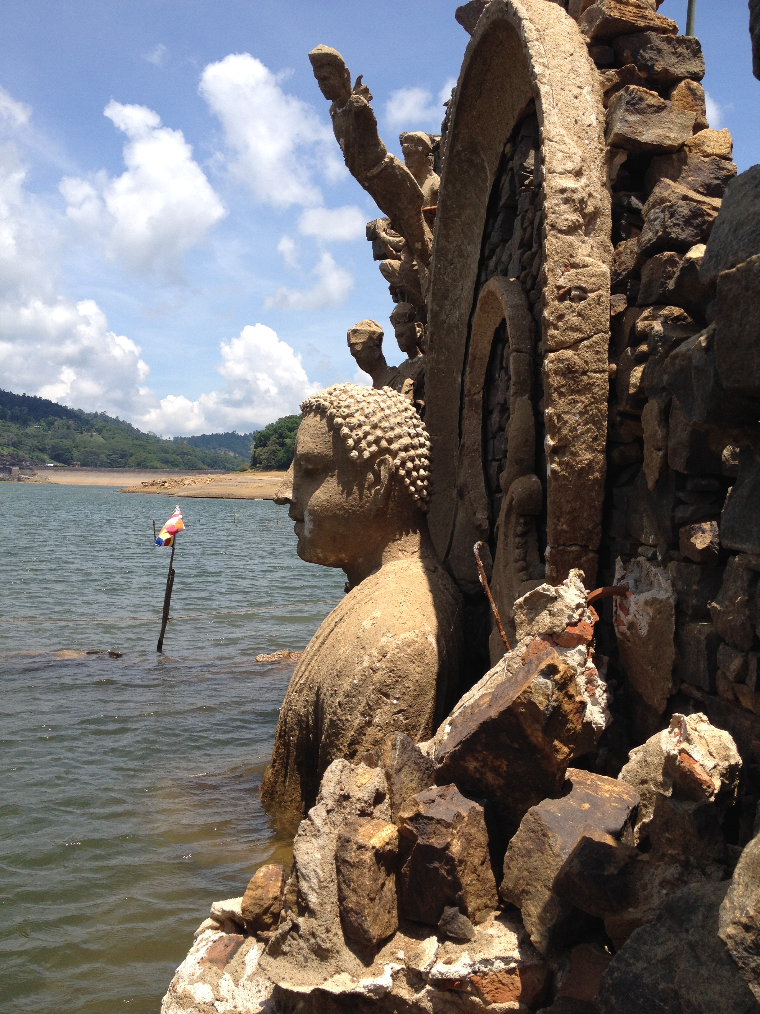 The emerged Buddha statue of Kadadora Vihara as the diminishing of water level of Kotmale Reservoir. Sri Lanka